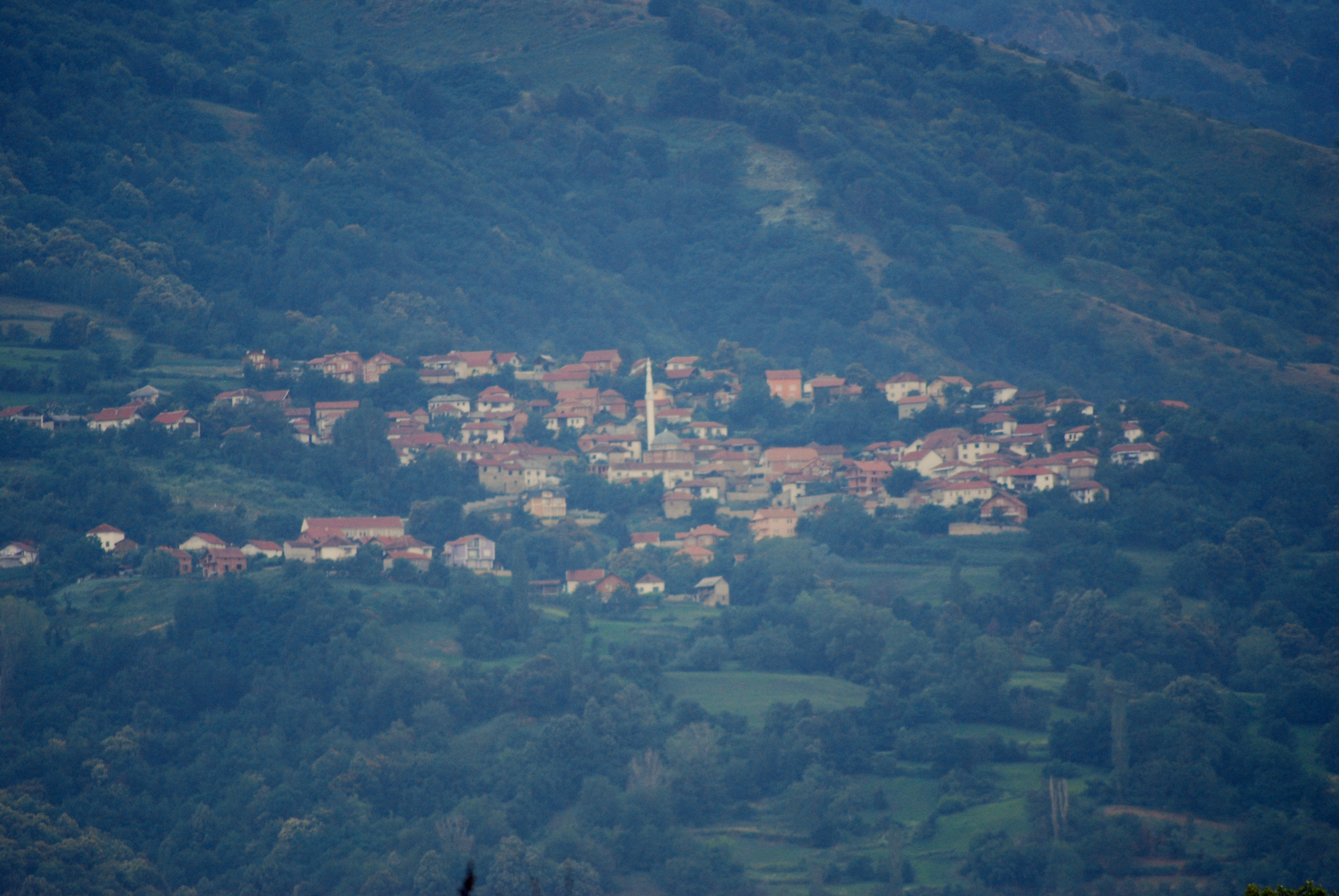 View on Rakovec, Tetovo, Macedonia